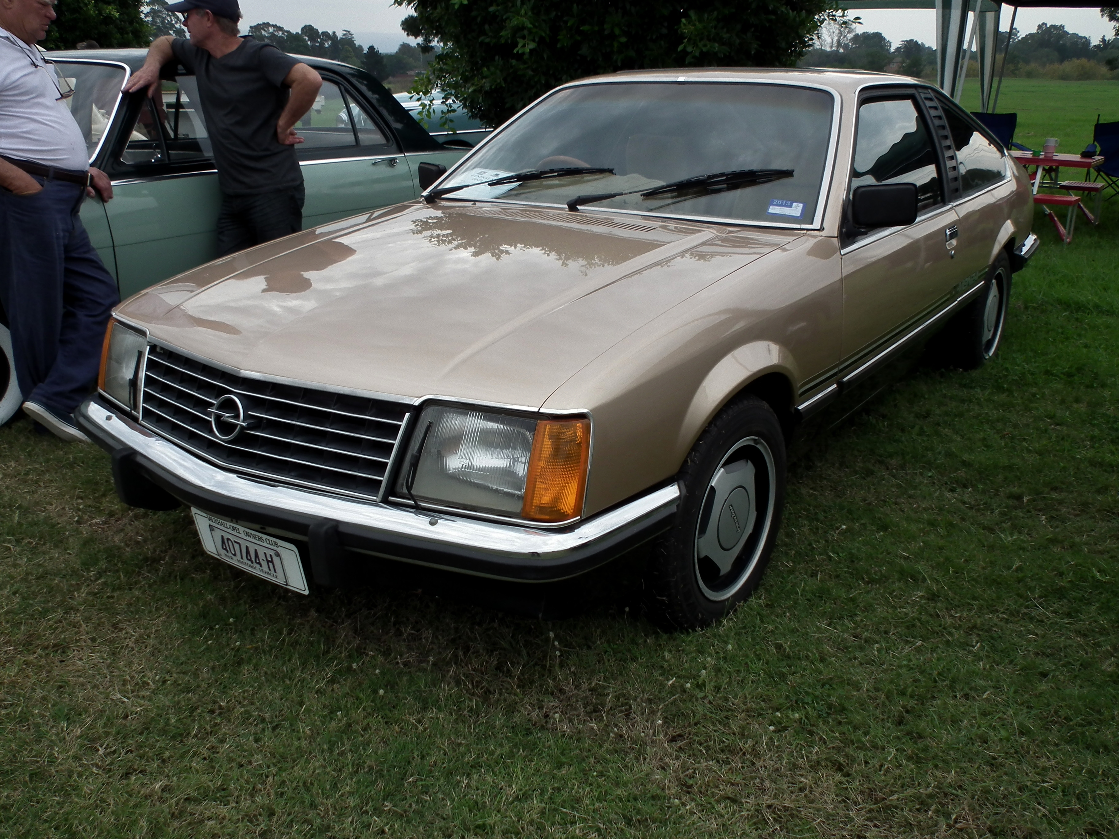 1980 Opel Monza coupe. Taken at the General Motors Display Day, held in the grounds of Penrith Panthers Club, Penrith NSW.